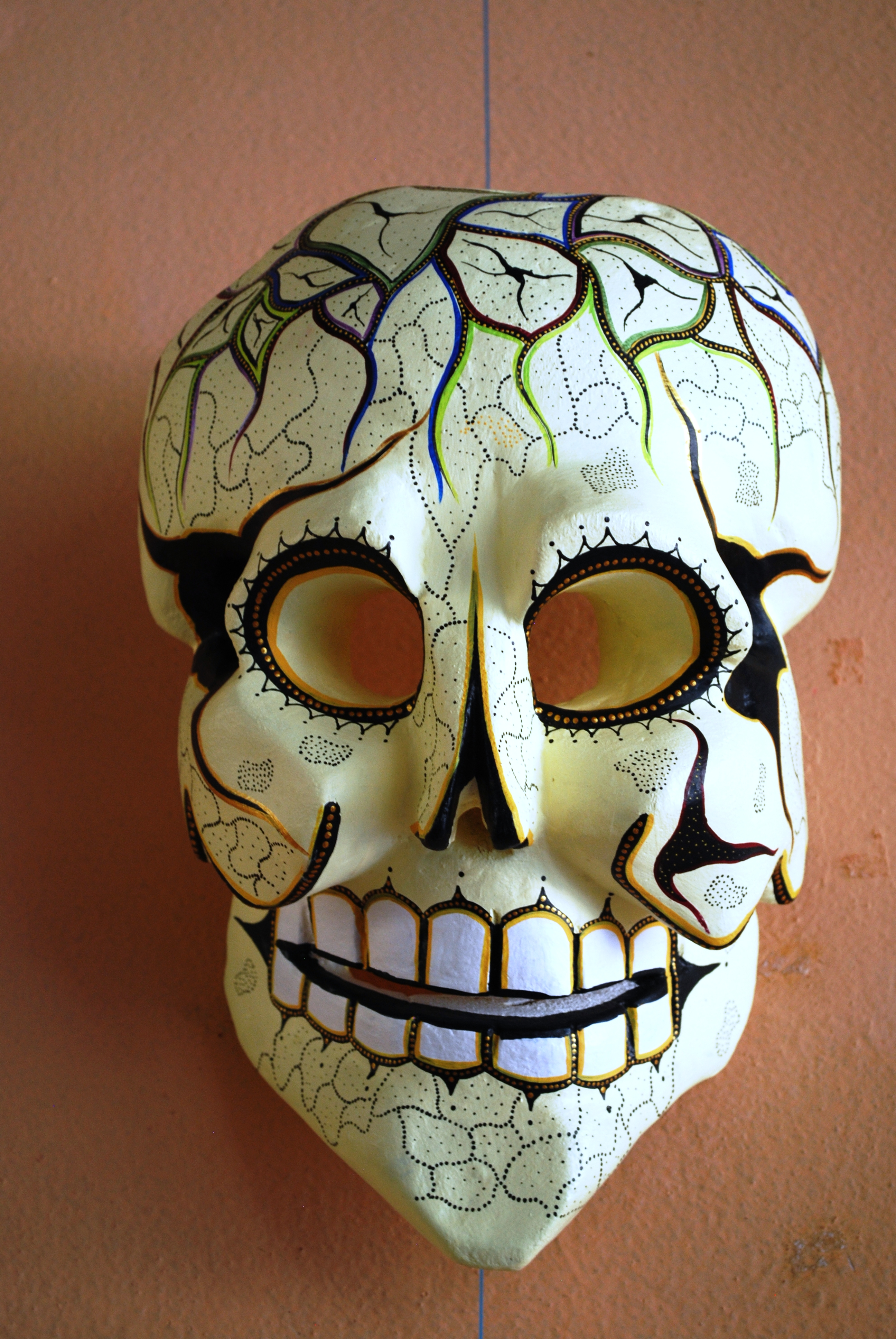 "Mascara de Muerte" by Margarito Melchor of San Martín Tilcajete at Museo Estatal de Arte Popular de Oaxaca in San Bartolo Coyotepec, Oaxaca, Mexico. See COM:CRT/Mexico#Freedom of panorama